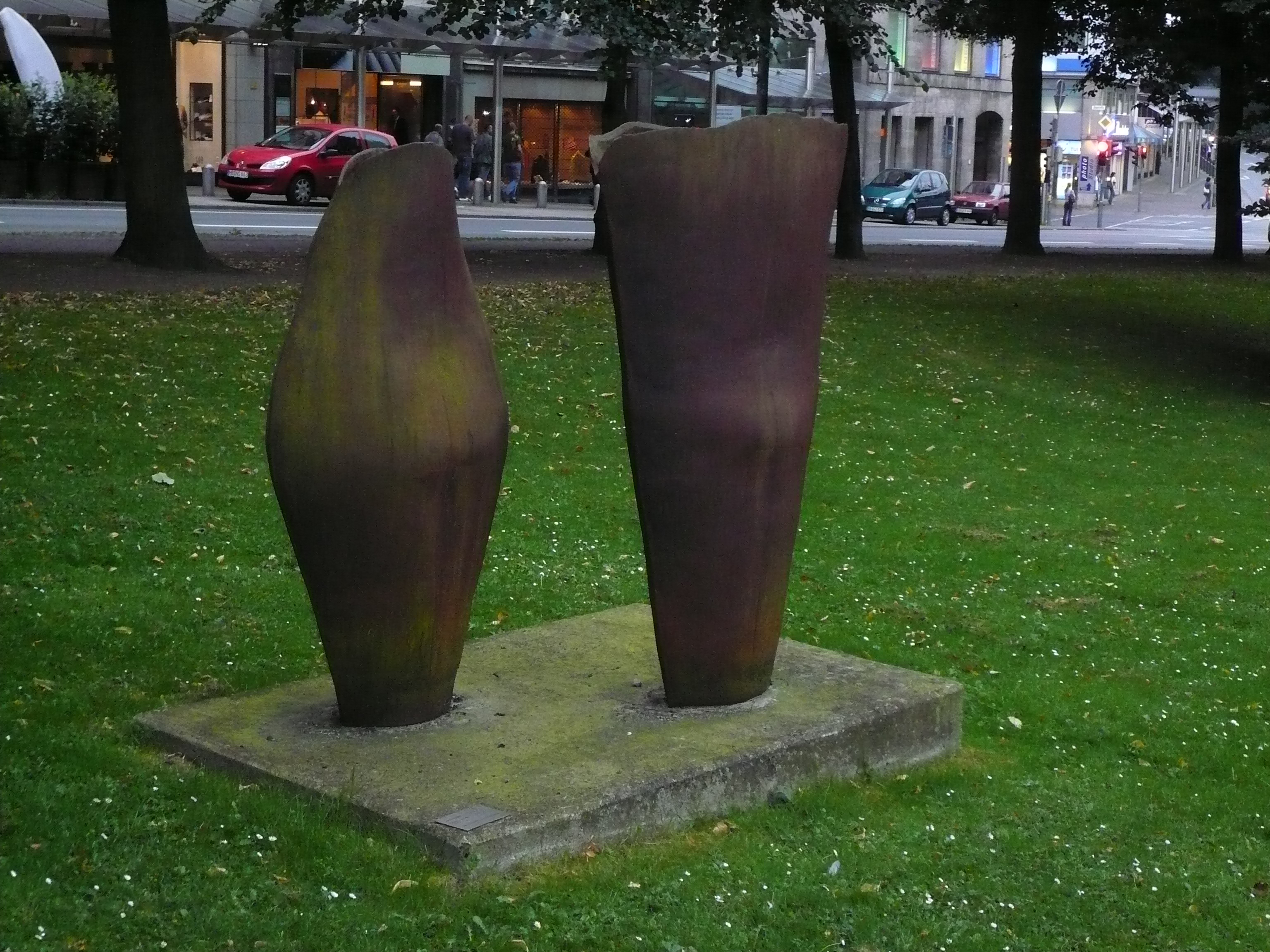 A sculpture entitled Man and Wife (1992) by Christa Baumgärtel in Bremen, Germany.